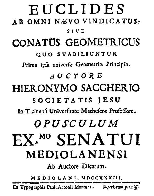 Title page of 1733’s Girolamo Saccheri's Euclide Ab Omni Naevo Vindicatus, printed in Milan (Mediolanum)